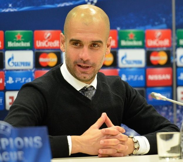 Pep Guardiola as a coach of FC Bayern Munich in 2015